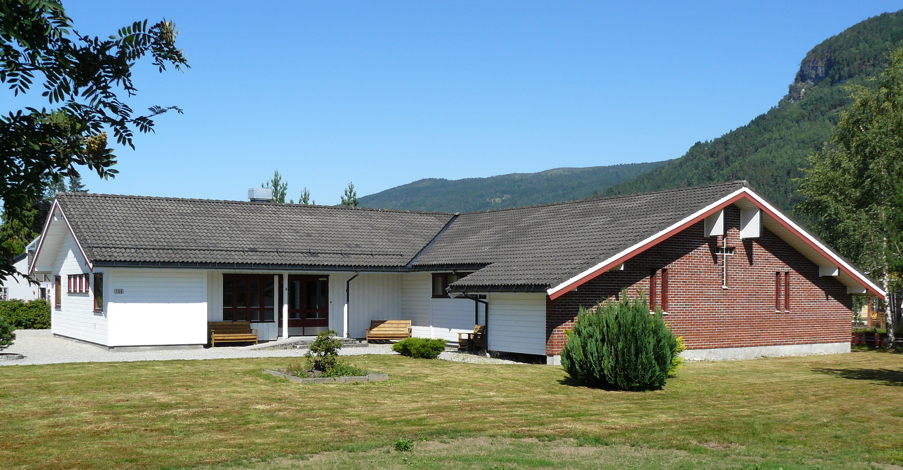 Church of Sion Sandane, Gloppen, Norway